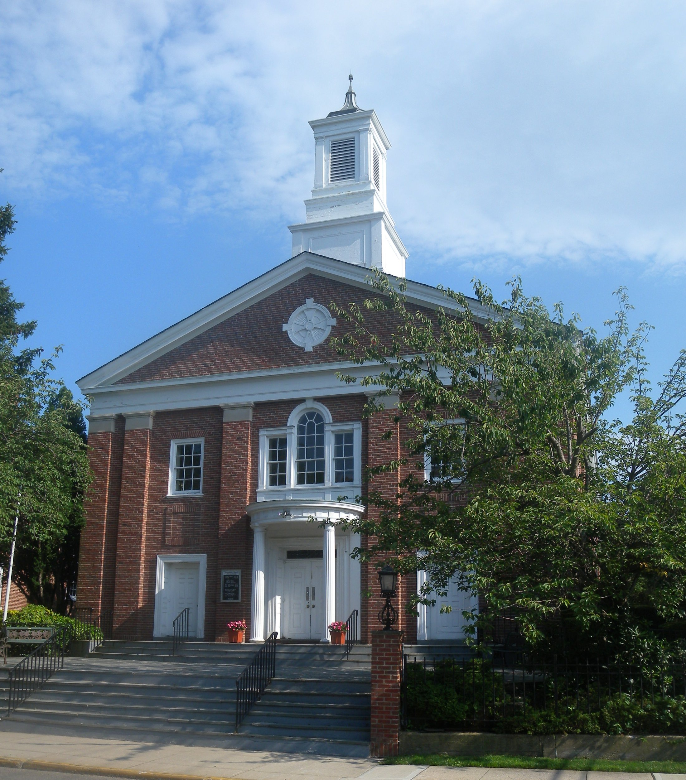 Looking south across Stoner Avenue at church on a sunny afternoon.